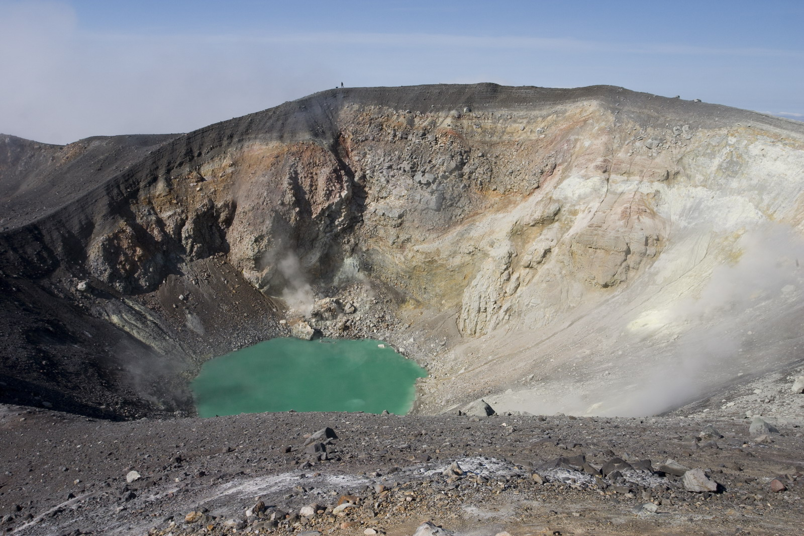 one small explosion crater in one of three summit craters of Ebeko volcano Paramushir, Kuril islands